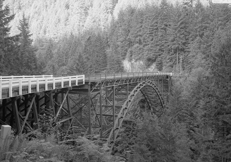 Carbon River Bridge (properly Fairfax Bridge), near Carbonado, part of Washington State Route 165